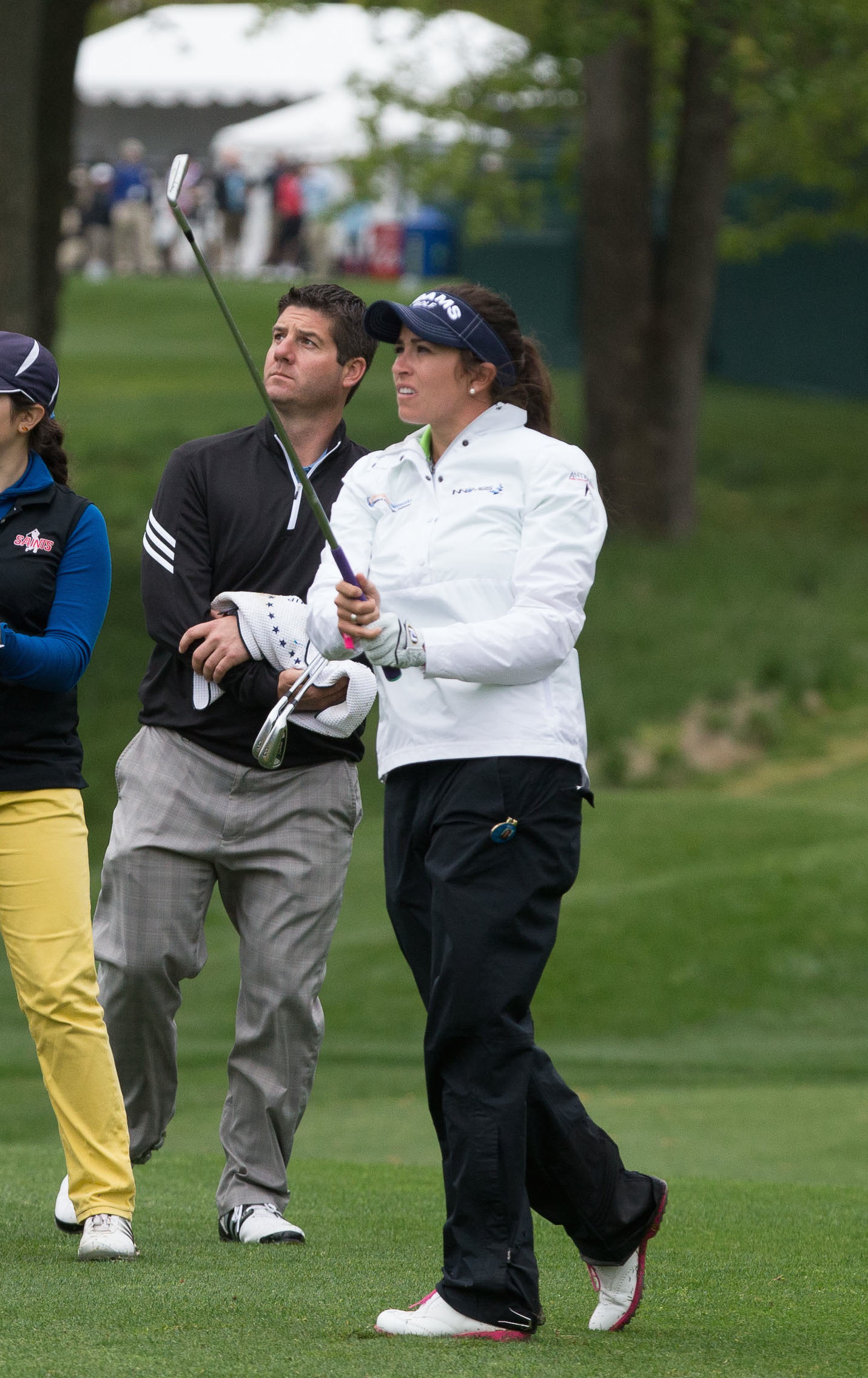 Cropped version of the original image.